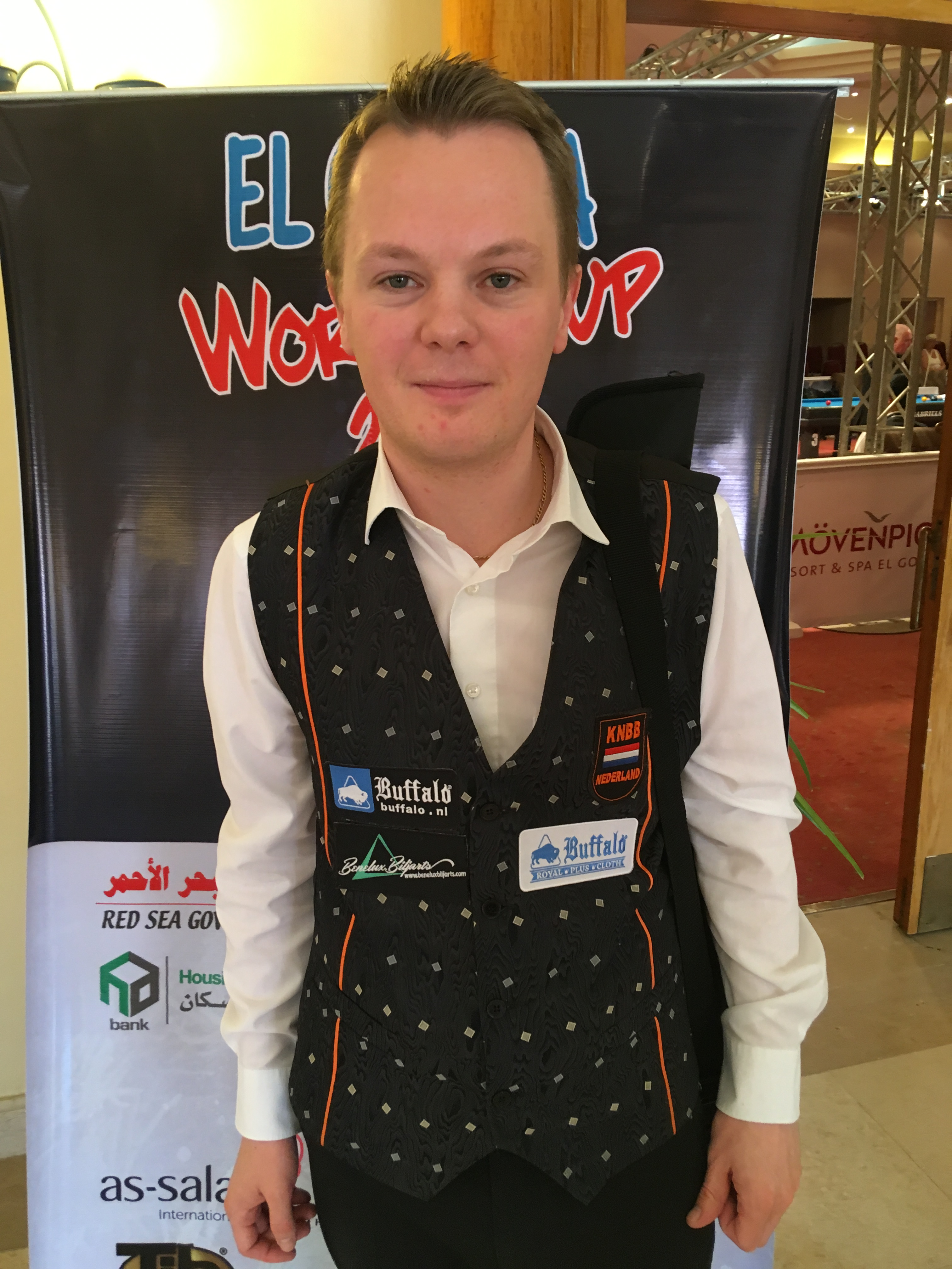 see file name